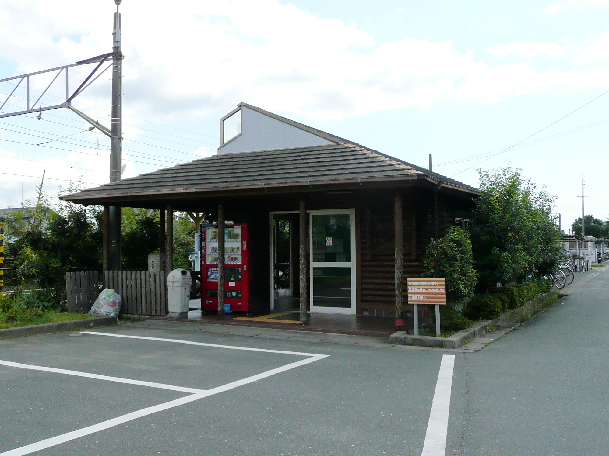 Enshu-Gansuiji MAE Station, Enshu Railway Line.